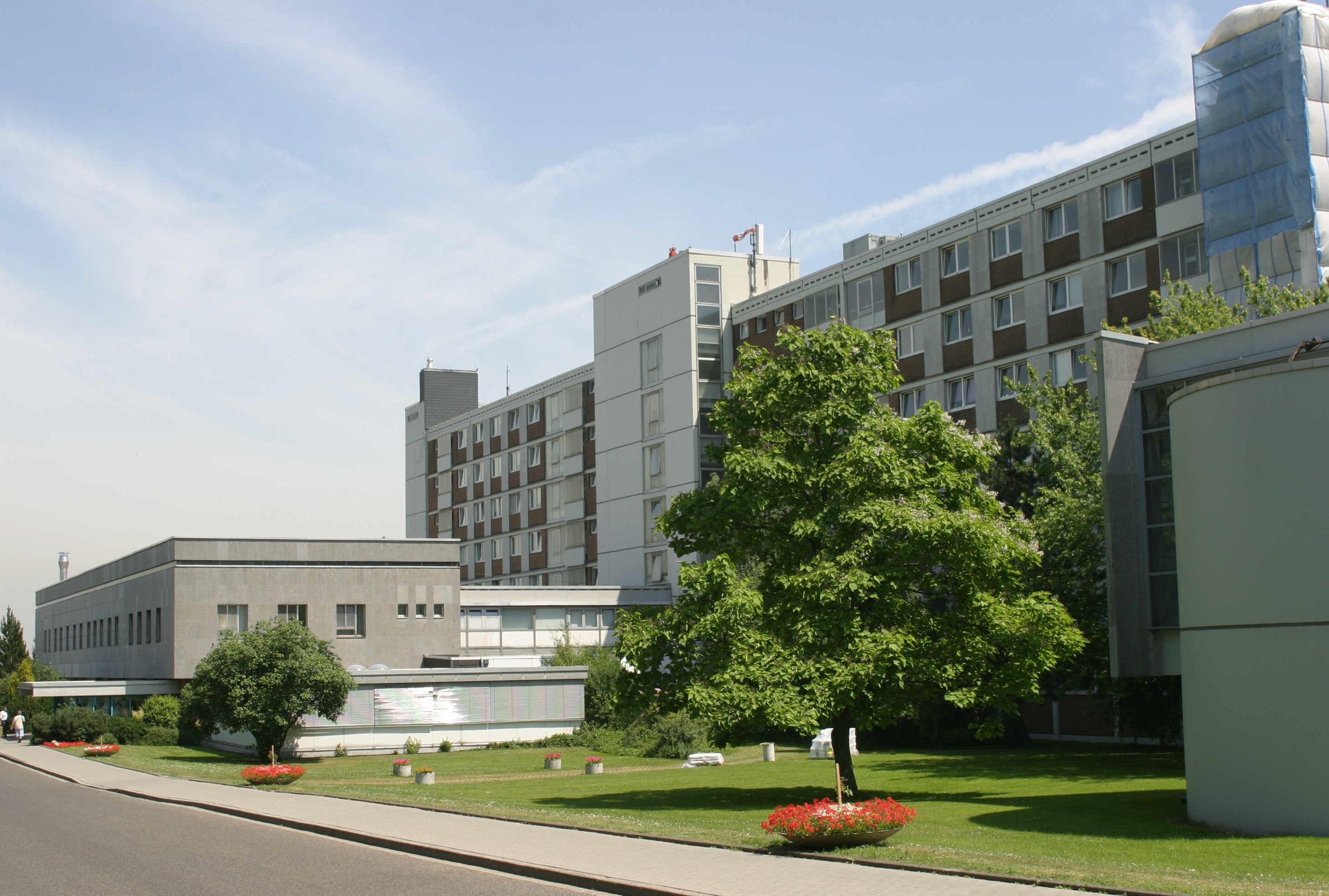 Medizinisches Zentrum Kreis Aachen, Betriebsteil Marienhöhe